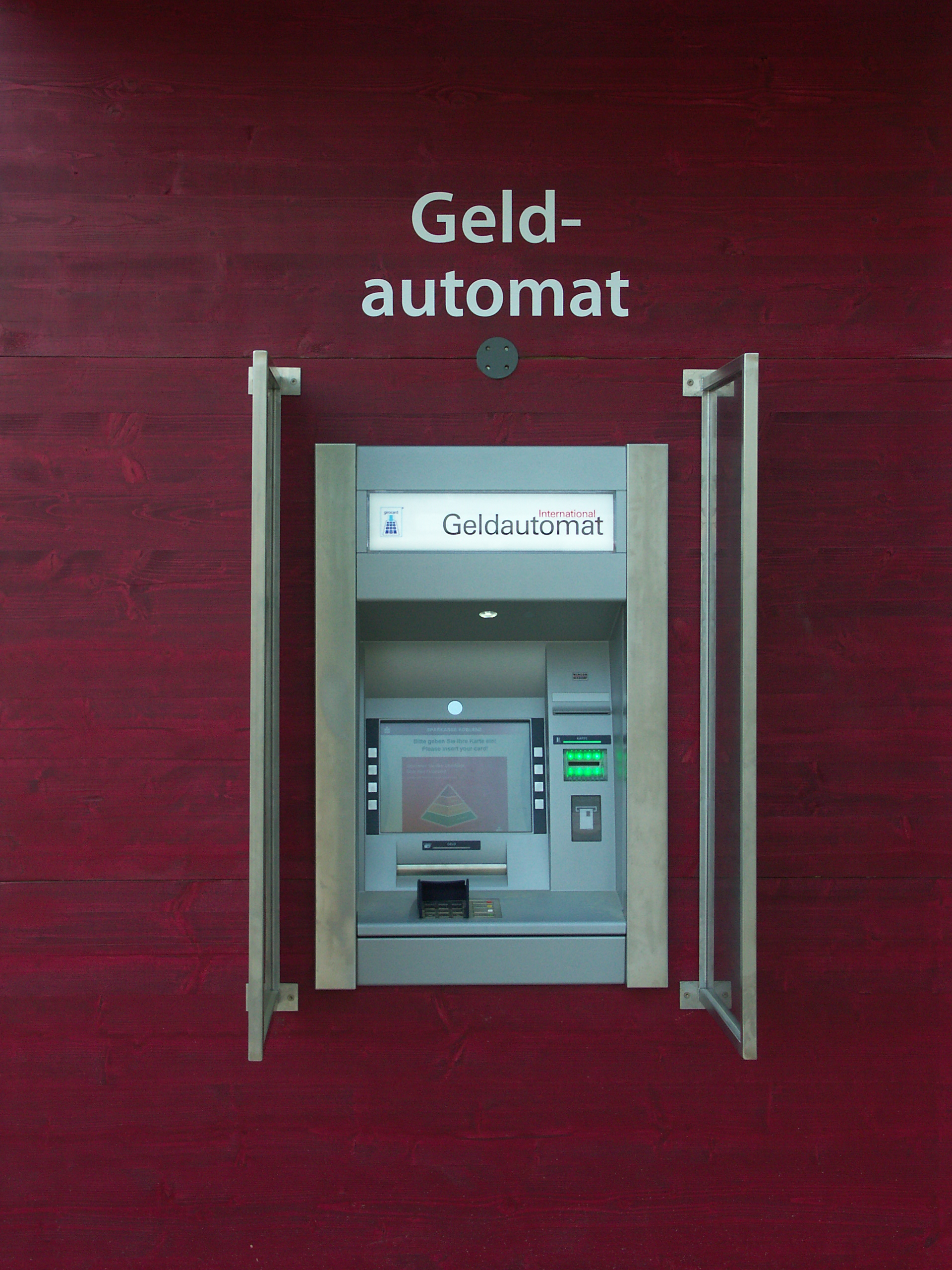 Automatic teller machine at Bundesgartenschau 2011 in Koblenz. federal horticultural show, geldautomat, atm cash machine